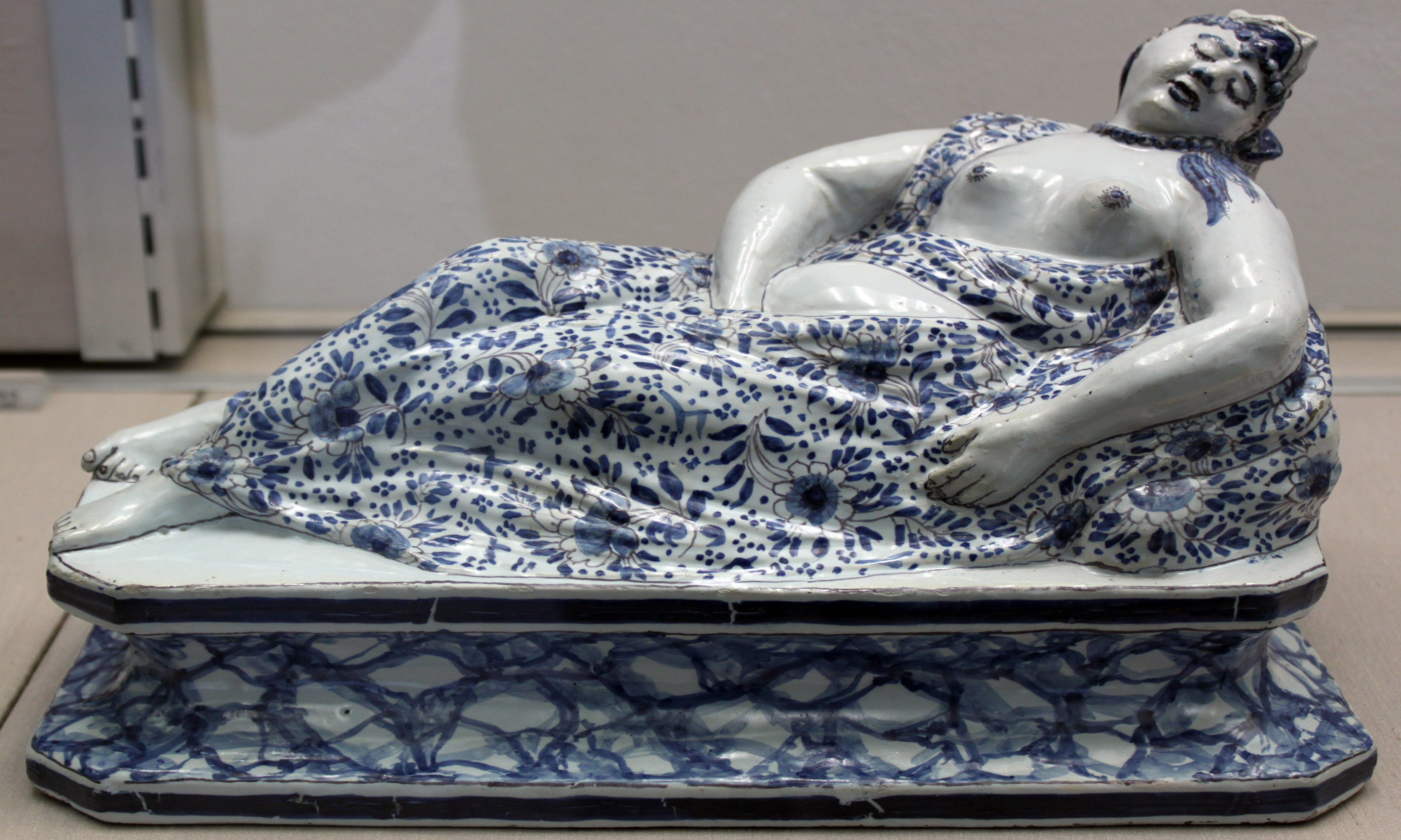 Sleeping(?) woman; faience with blue painting (Ulrich von Dassel), 1745; Germanic National Museum in Nuremberg